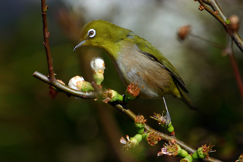 Keith Tarrier, Photo taken on February 24th 2007